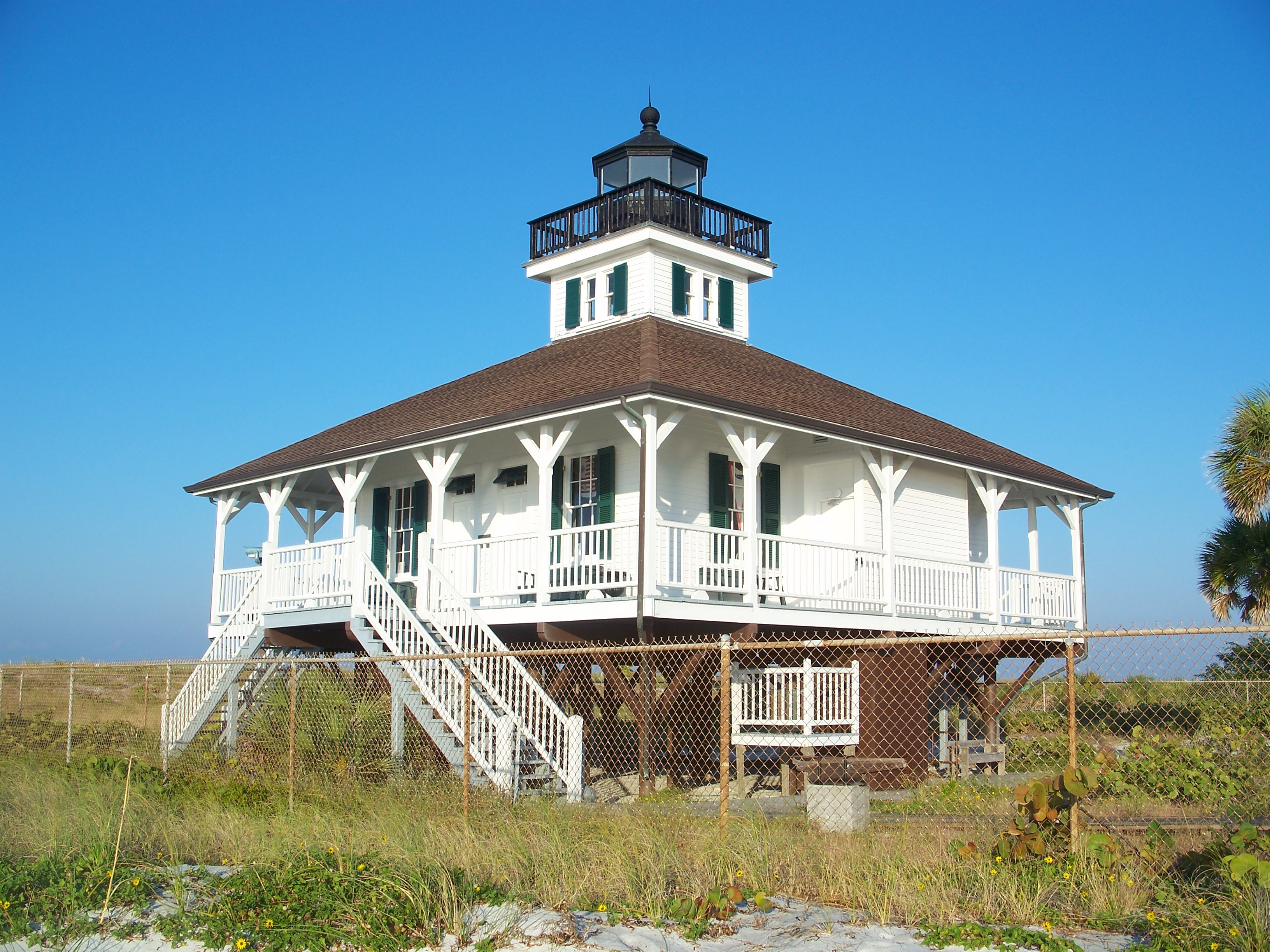 Gasparilla Island State Park: Gasparilla Island Lights